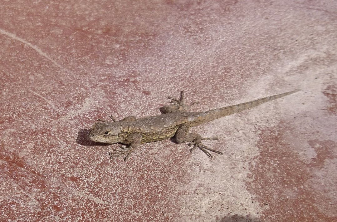 Mexican Lizard from Teoloyucan Mexico.